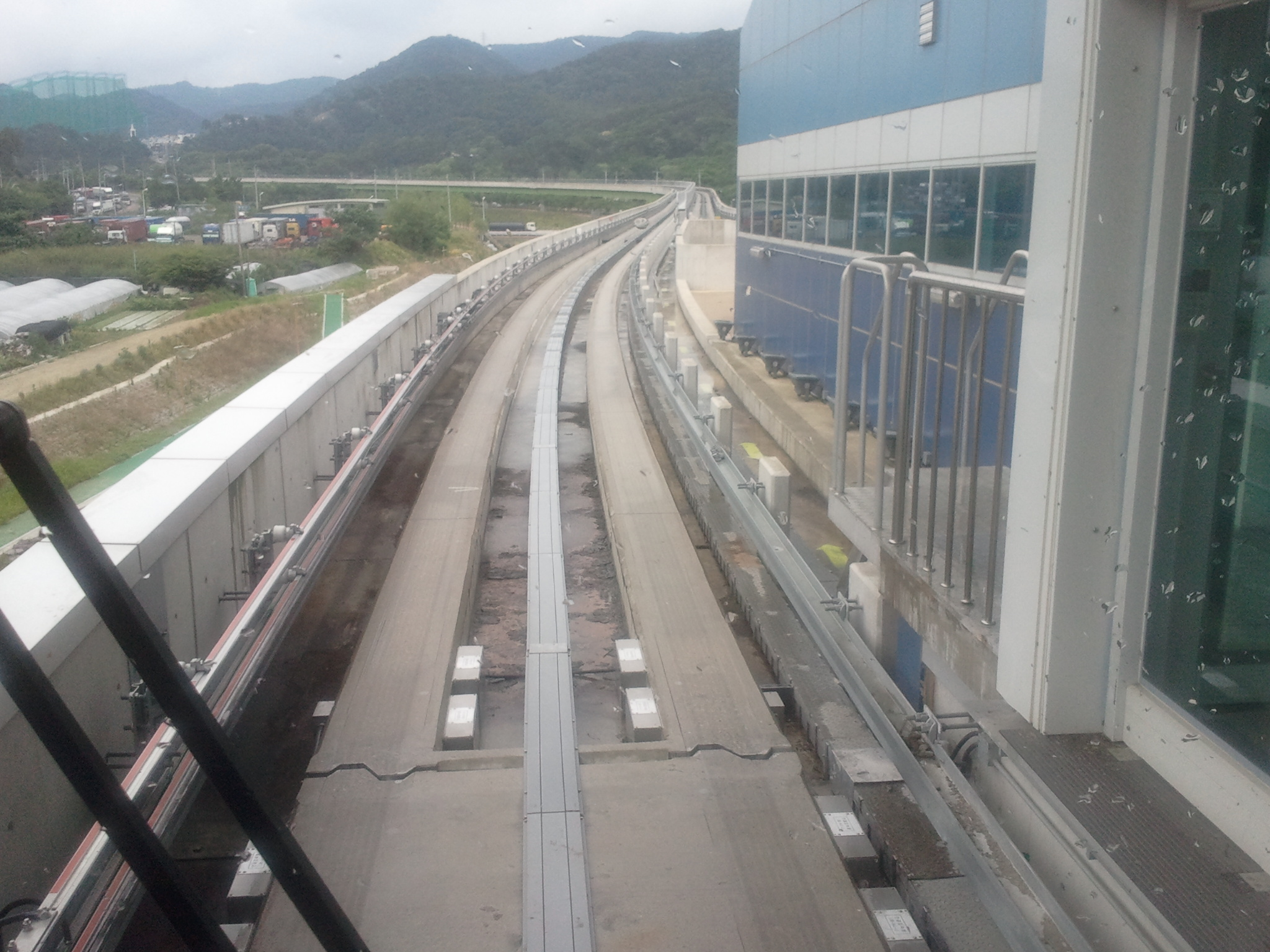 Rail of Busan Subway Line 4.